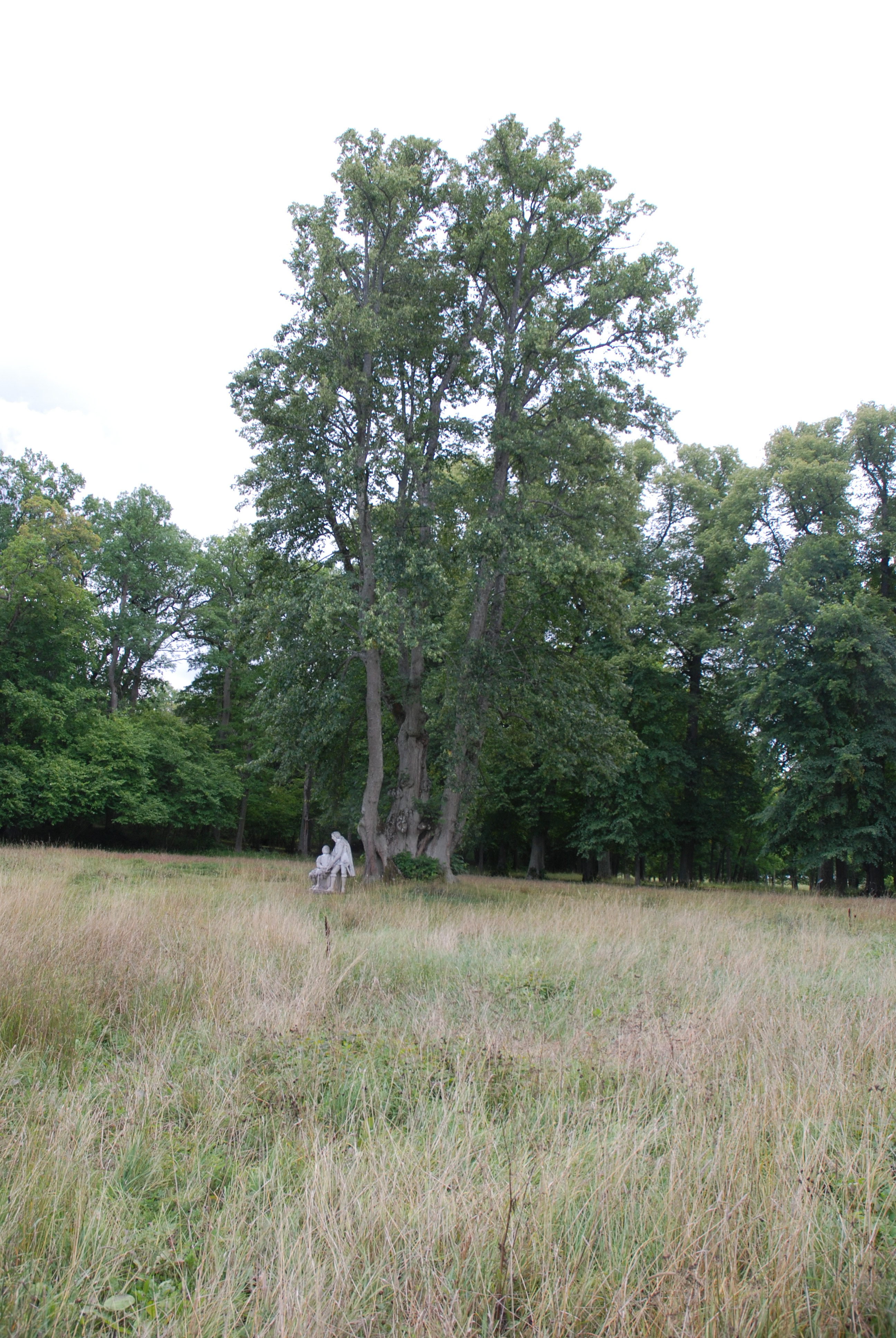 Svartsjö slott. Drottning Kristinas lind.